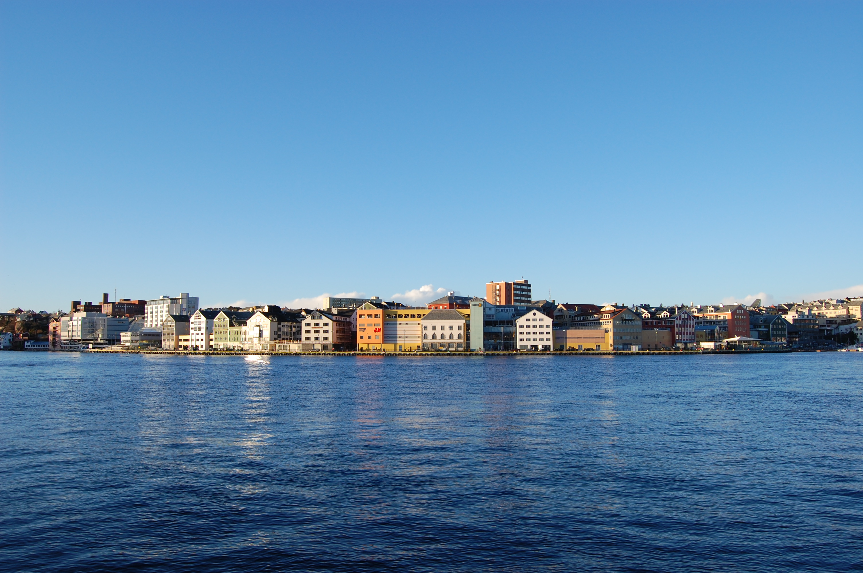 Storkaia harbour in Kristiansund